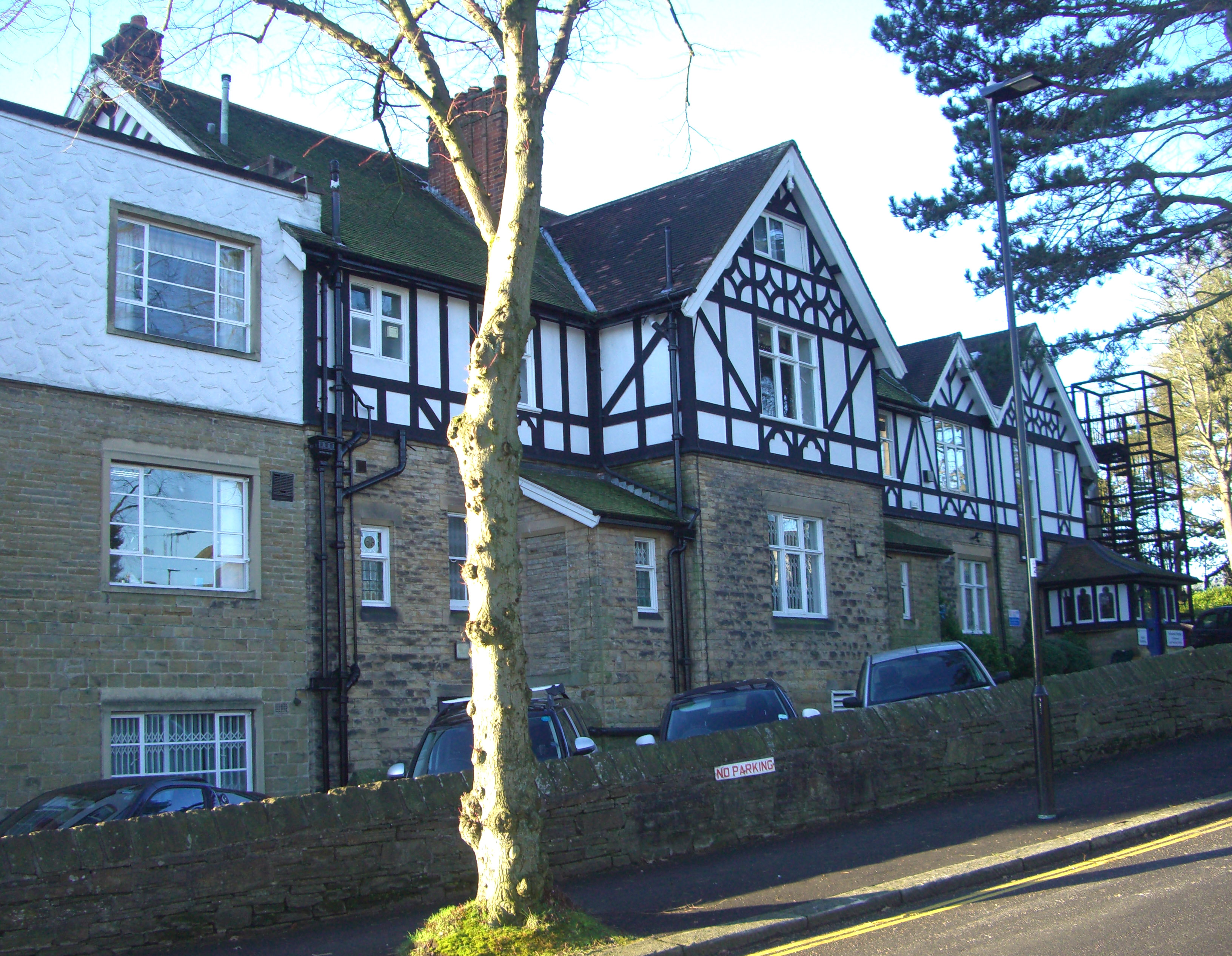 Fulwood House in the Sheffield, U.K. suburb of Fulwood.